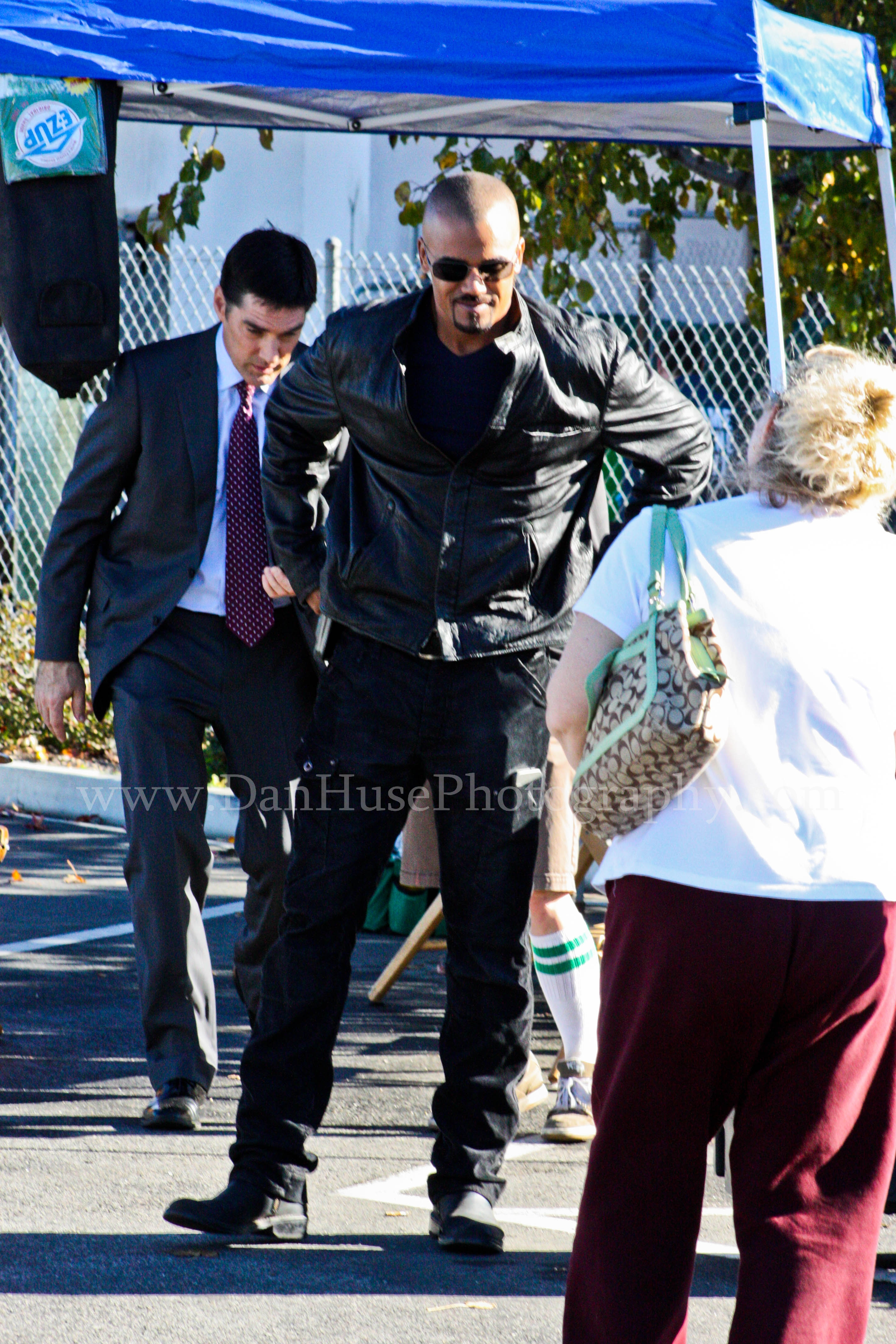 Filming of the TV show Criminal Minds in Simi Valley, California.